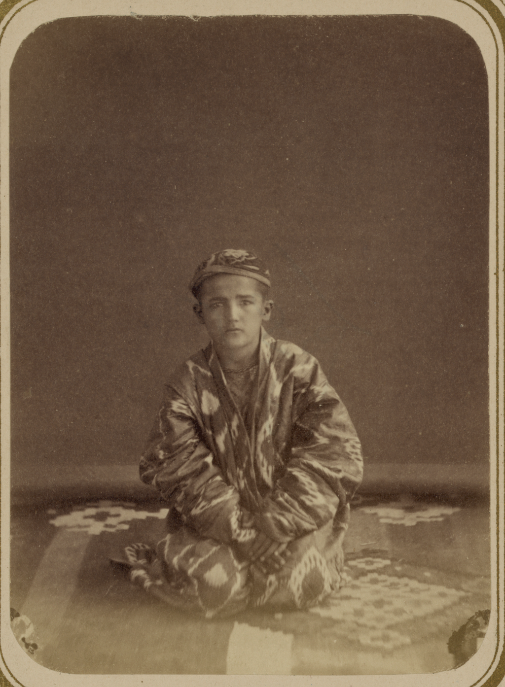 This photograph is from the ethnographical part of Turkestan Album, a comprehensive visual survey of Central Asia undertaken after imperial Russia assumed control of the region in the 1860s. Commissioned by General Konstantin Petrovich von Kaufman (1818–82), the first governor-general of Russian Turkestan, the album is in four parts spanning six volumes: “Archaeological Part” (two volumes); “Ethnographic Part” (two volumes); “Trades Part” (one volume); and “Historical Part” (one volume). The principal compiler was Russian Orientalist Aleksandr L. Kun, who was assisted by Nikolai V. Bogaevskii. The album contains some 1,200 photographs, along with architectural plans, watercolor drawings, and maps. The “Ethnographic Part” includes 491 individual photographs on 163 plates. The photographs show individuals representing the different peoples of the region (Plates 1–33); daily life and rituals (Plates 34–91); and views of villages and cities, street vendors, and commercial activities (Plates 92–163). Dancers; Entertainers; Ethnographic photographs; Photographic surveys; Portrait photographs; Portraits; Turkic peoples